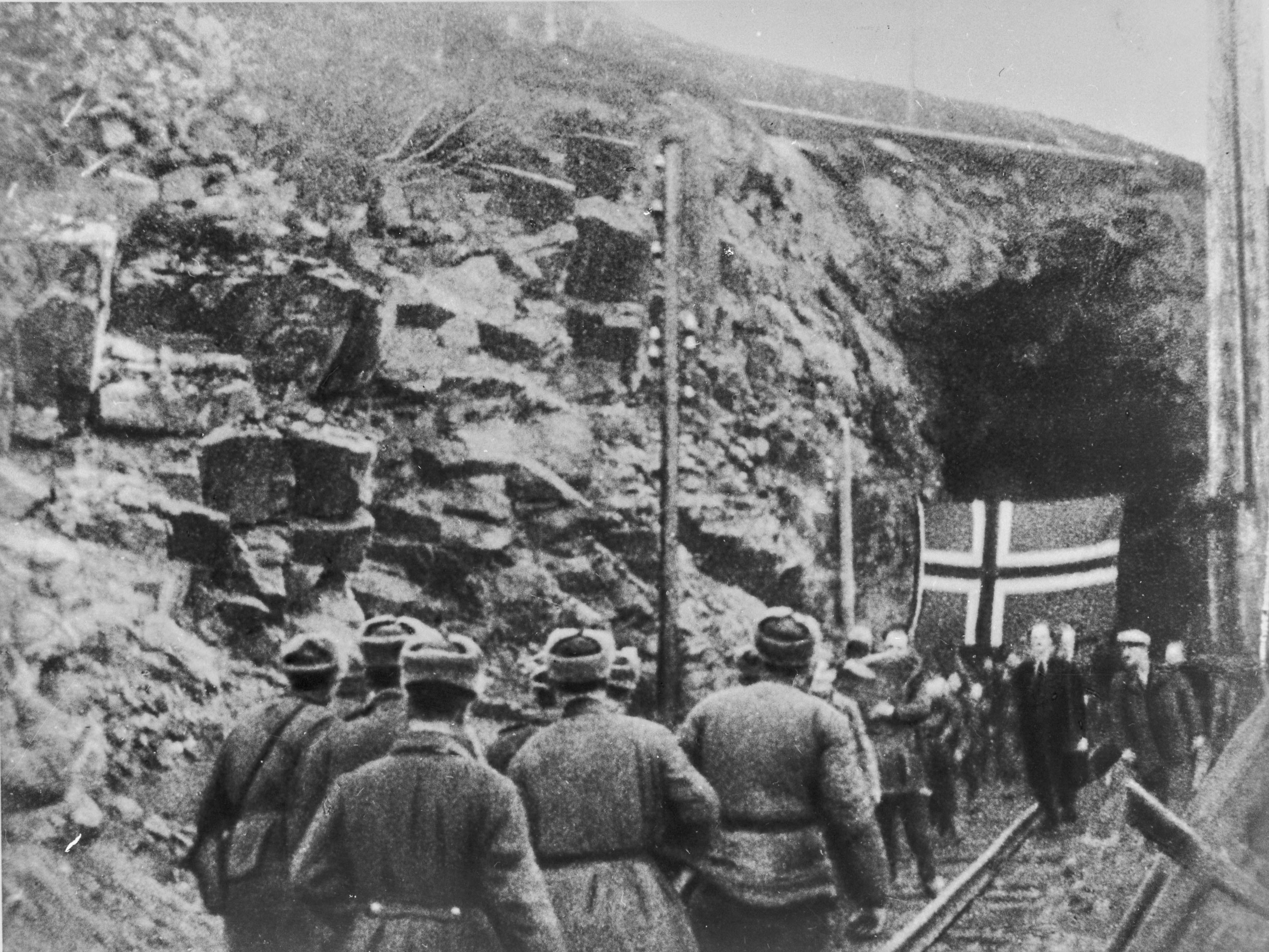 Photos from Flickr album "Evakueringen og frigjøringen av Finnmark" (The Evacuation and Liberation of Finnmark, 2015) by Riksarkivet (National Archives of Norway). Towards the end of World War II, with Operation Nordlicht, the Germans used the scorched earth tactic in Finnmark and northern Troms to halt the Red Army. As a consequence of this, few houses survived the war, and a large part of the population was forcefully evacuated further south (Tromsø was crowded), but many people avoided evacuation by hiding in caves and mountain huts and waited until the Germans were gone, then inspected their burned homes. There were 11,000 houses, 4,700 cow sheds, 106 schools, 27 churches, and 21 hospitals burned. There were 22,000 communications lines destroyed, roads were blown up, boats destroyed, animals killed, and 1,000 children separated from their parents. However, after taking the town of Kirkenes on 25 October 1944 (as the first town in Norway), the Red Army did not attempt further offensives in Norway. The town was handed over to Norway as the war ended. When war was over, more than 70,000 people were left homeless in Finnmark. The government imposed a temporary ban on residents returning to Finnmark because of the danger of landmines. The ban lasted until the summer of 1945 when evacuees were told that they could finally return home.